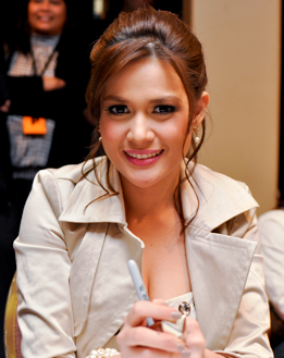 Bea Alonzo as photographed by Ronn Tan, April 2010.